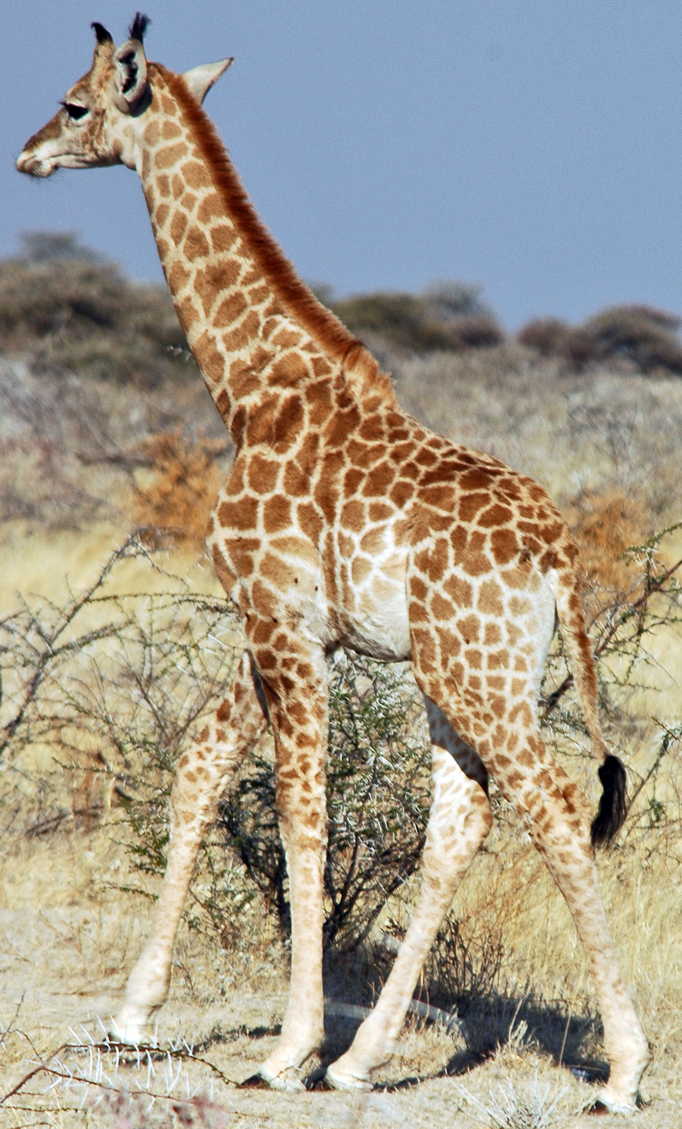 Namibie Etosha National Park Girafon Photographie prise par GIRAUD Patrick